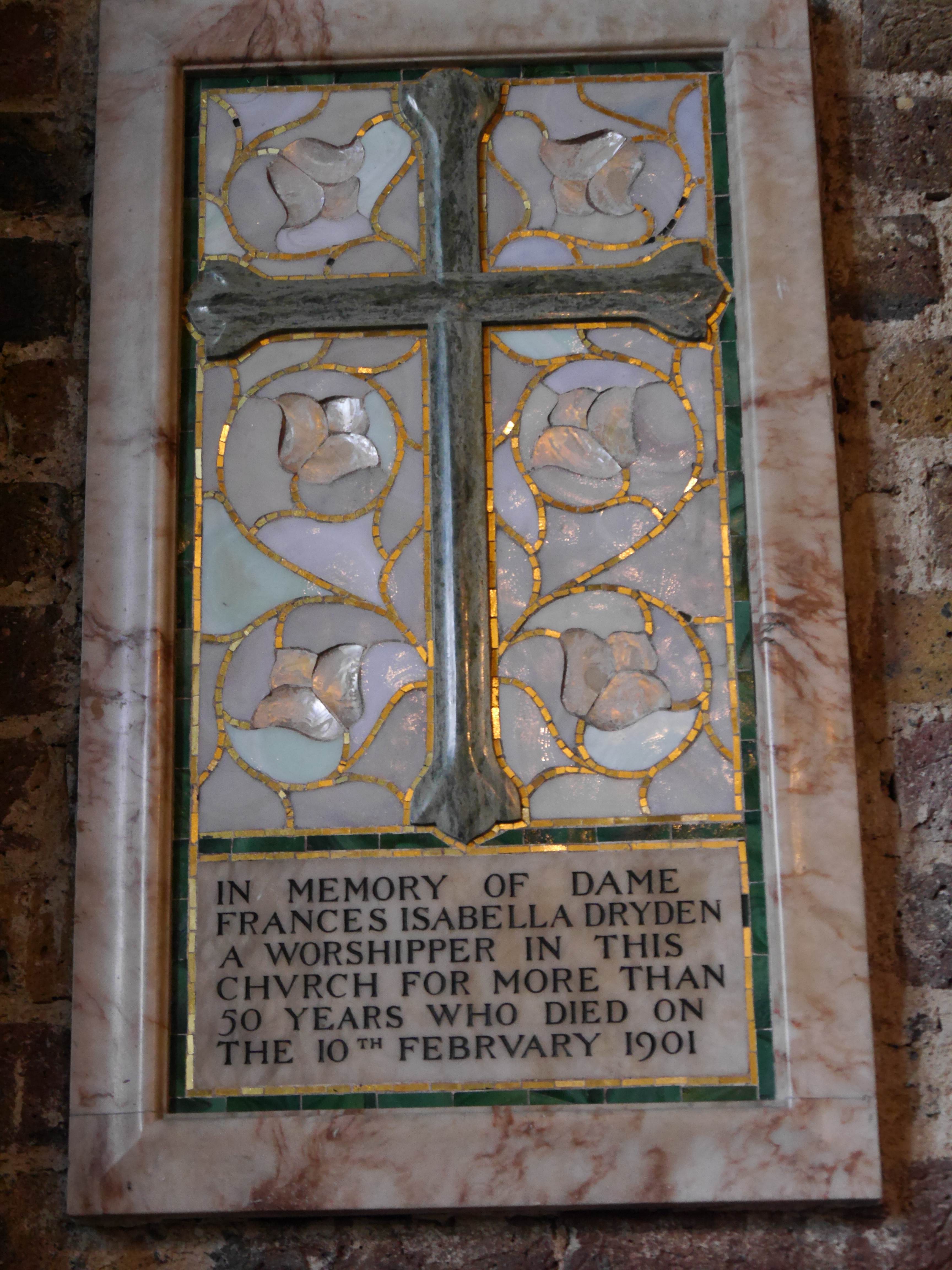 St Mary's, Putney Wikidata has entry Q7590181 with data related to this building.